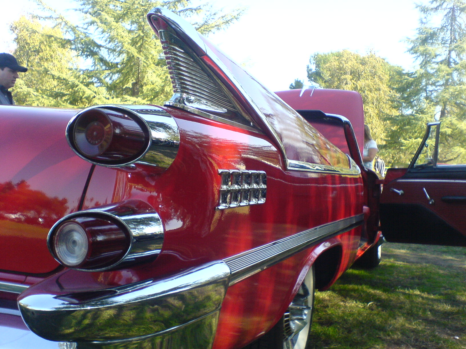 Picture of a 1959 Dodge Custom Royal at the Mopar Fall Fling in Van Nuys, California.